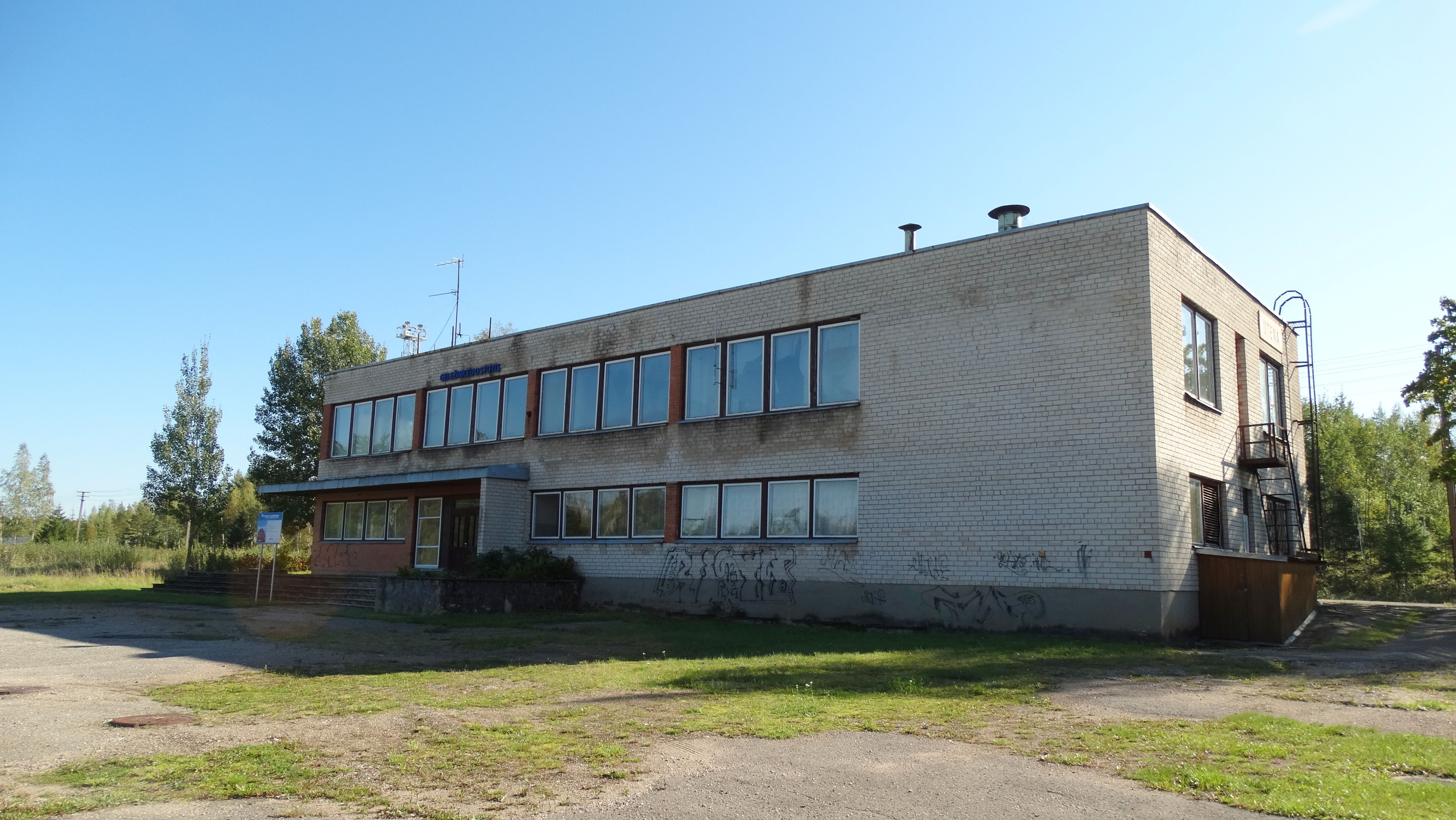 Railway station, Utena district, Lithuania